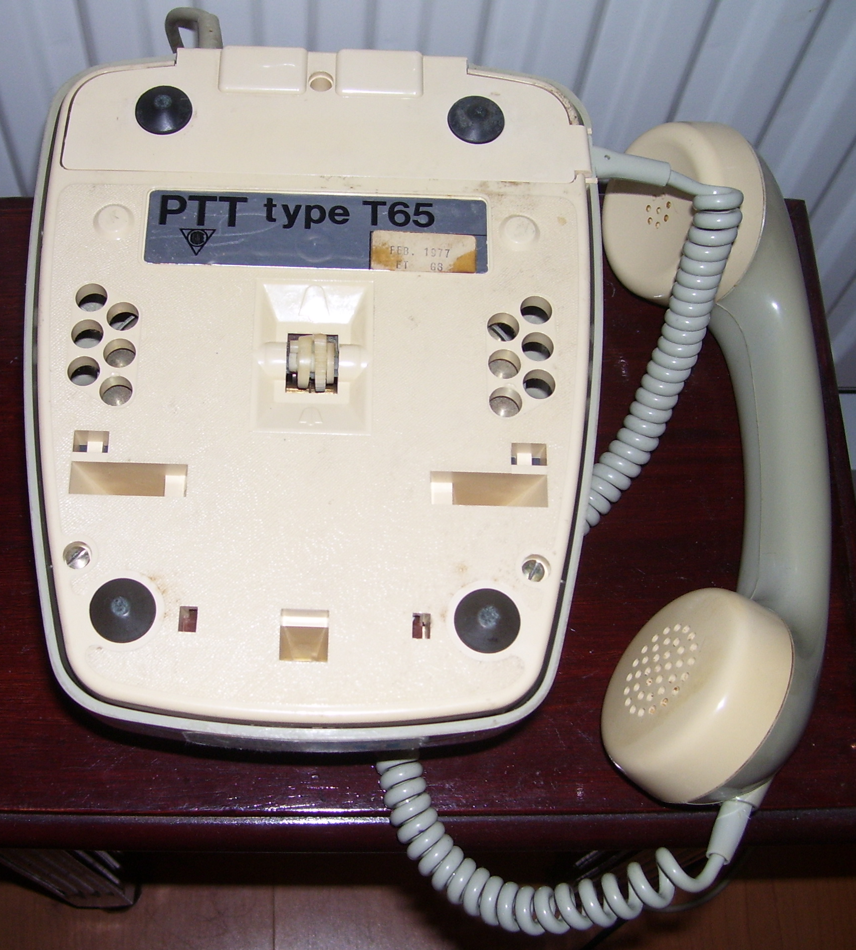 T65 telephone, bottom side shows the PTT approved sticker.